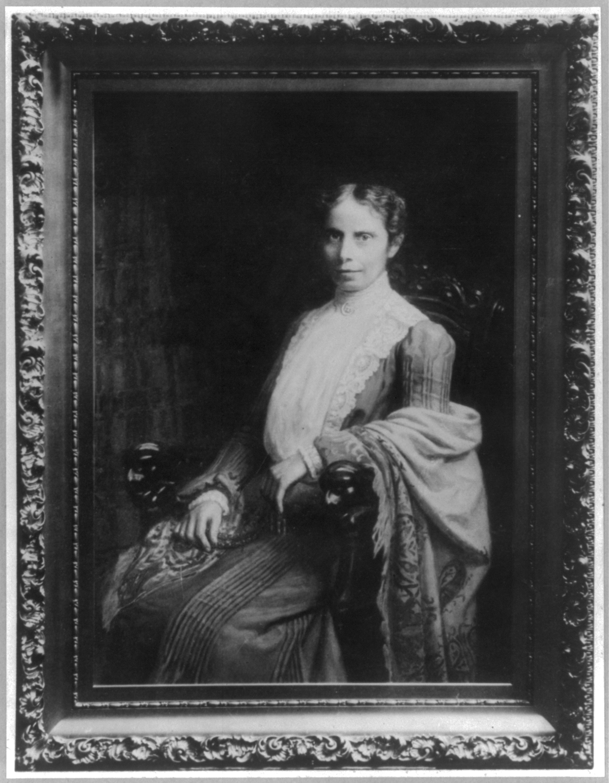 Alice Stone Blackwell oil painting portrait